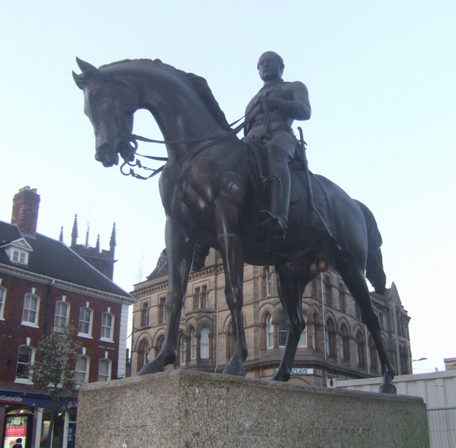 Prince Albert Statue - Queen Square The unveiling of the statue of Prince Albert on 30th November 1866 was the first public appearance of Queen Victoria following a long period of mourning after her husband's death in 1861. Albert is seated on his horse Nimrod and is in the uniform of a Field Marshall with Order of the Garter. In honour of the occasion the square was re-named from High Green to Queen Square. Throughout the years the statue has been moved up, down and around the square as roads and traffic have changed, even for a period on top of the gents lavatories. Yet another scheme is underway to refresh the pedestrian area behind the statue.